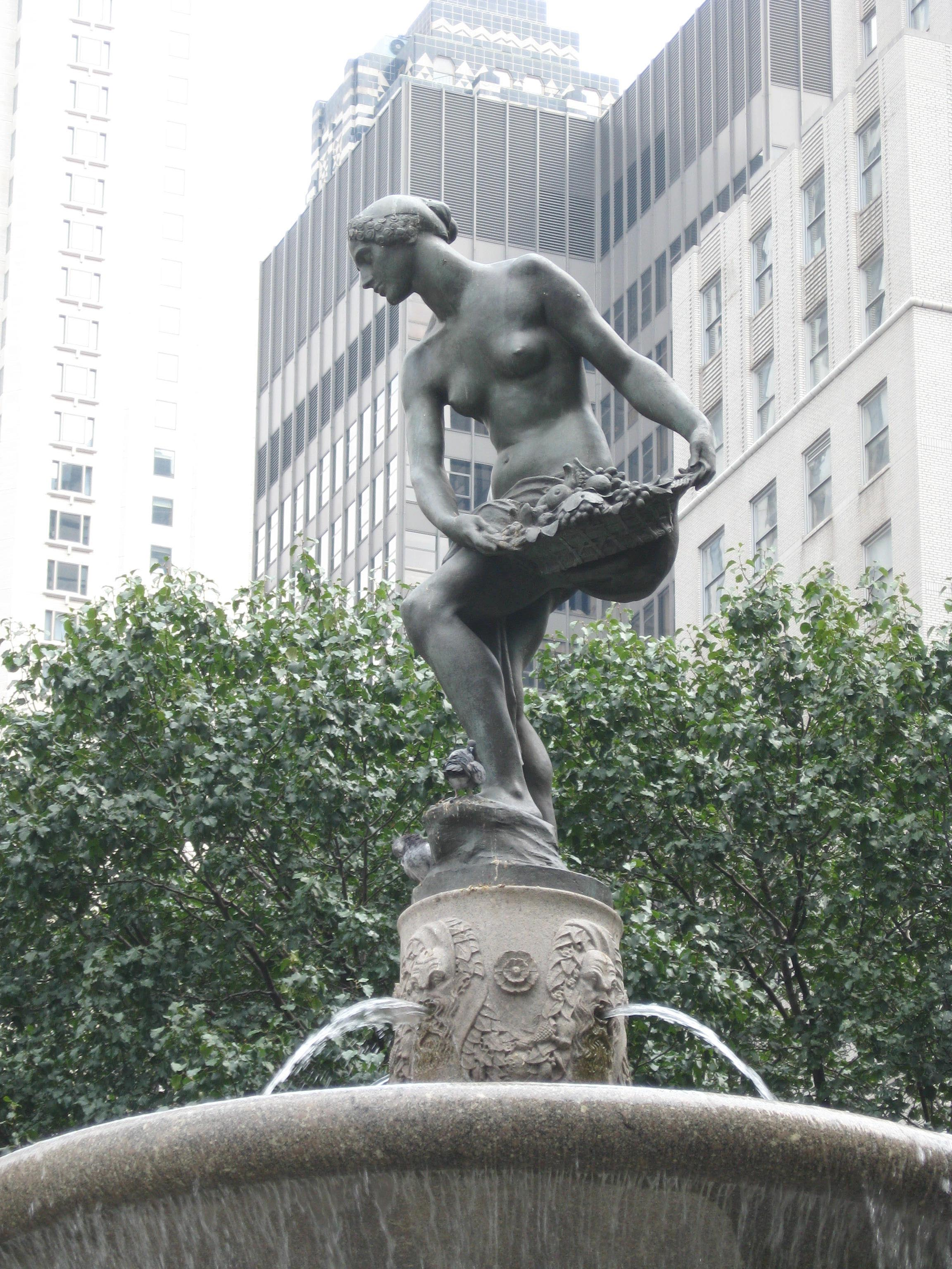 Looking southeast at Pomona statue in Manhattan's Grand Army Plaza, across from Plaza Hotel on a cloudy afternoon. See also File:Schevill Karl Bitter unfinished figure.jpg.